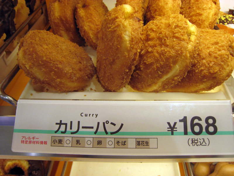 Nothing quite says yummy like a good, old-fashioned, Mister Donuts ~*~ curry donut! ~*~. As seen in Fukuoka.